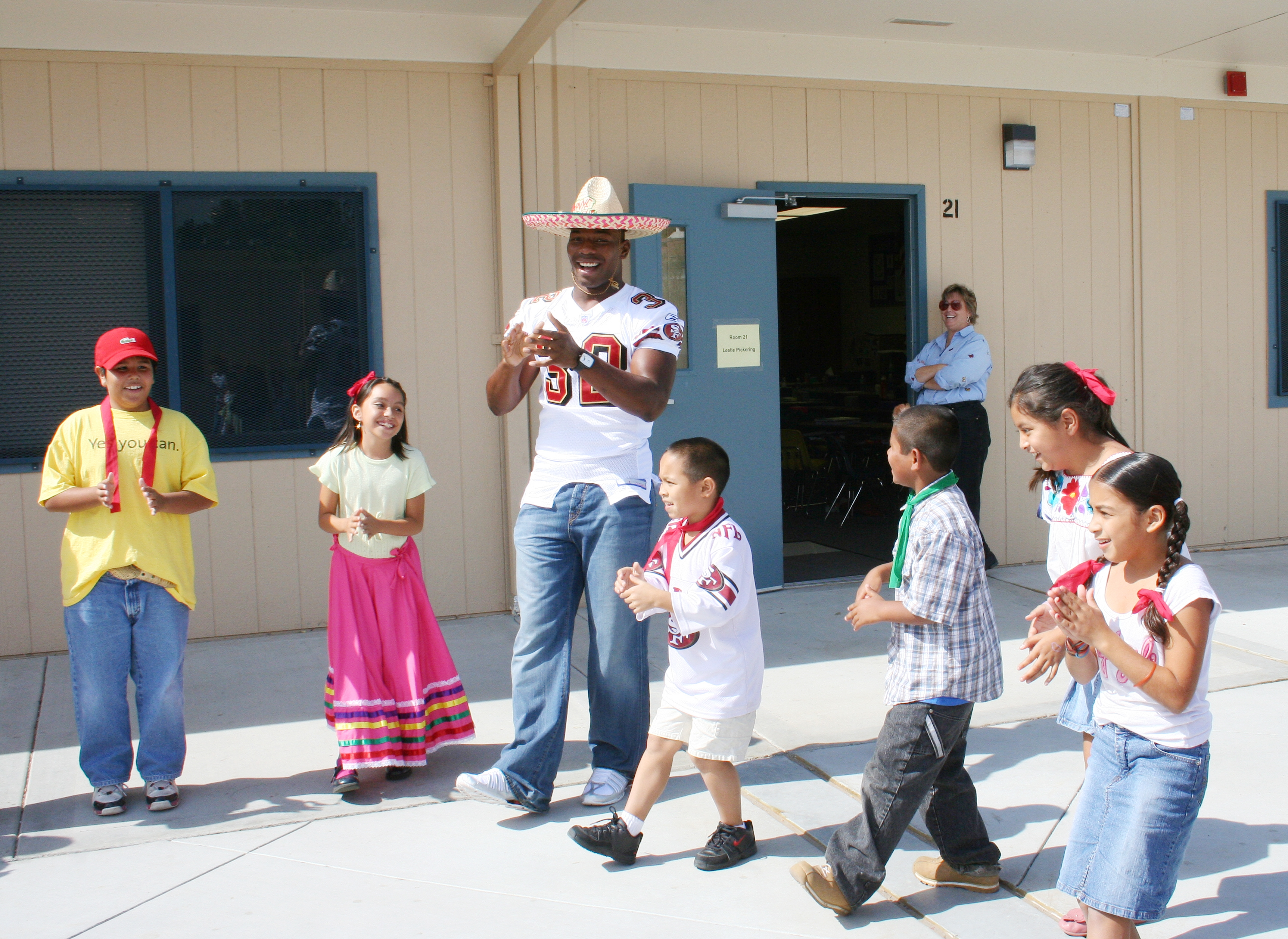 Kevan Barlow shown dancing with school children during a charity event.